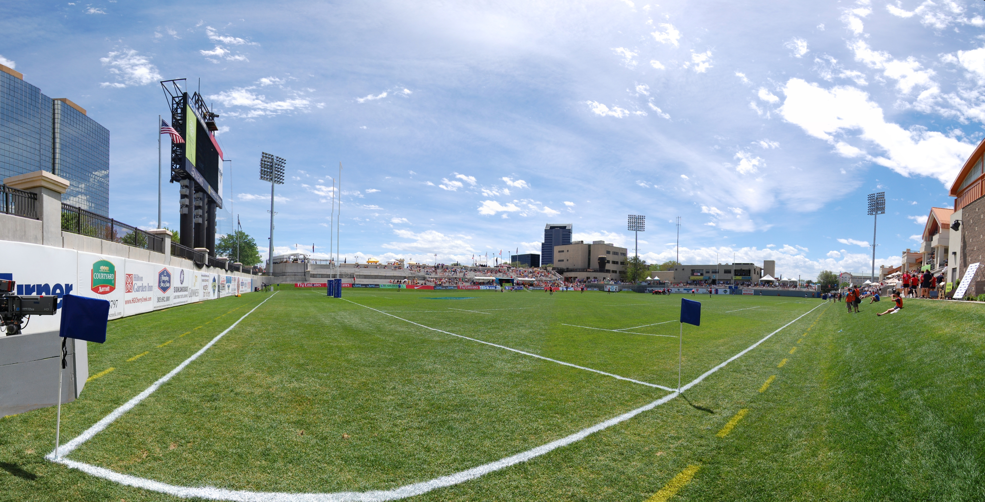 A view from the north-east corner of the rugby field at Infinity Park.